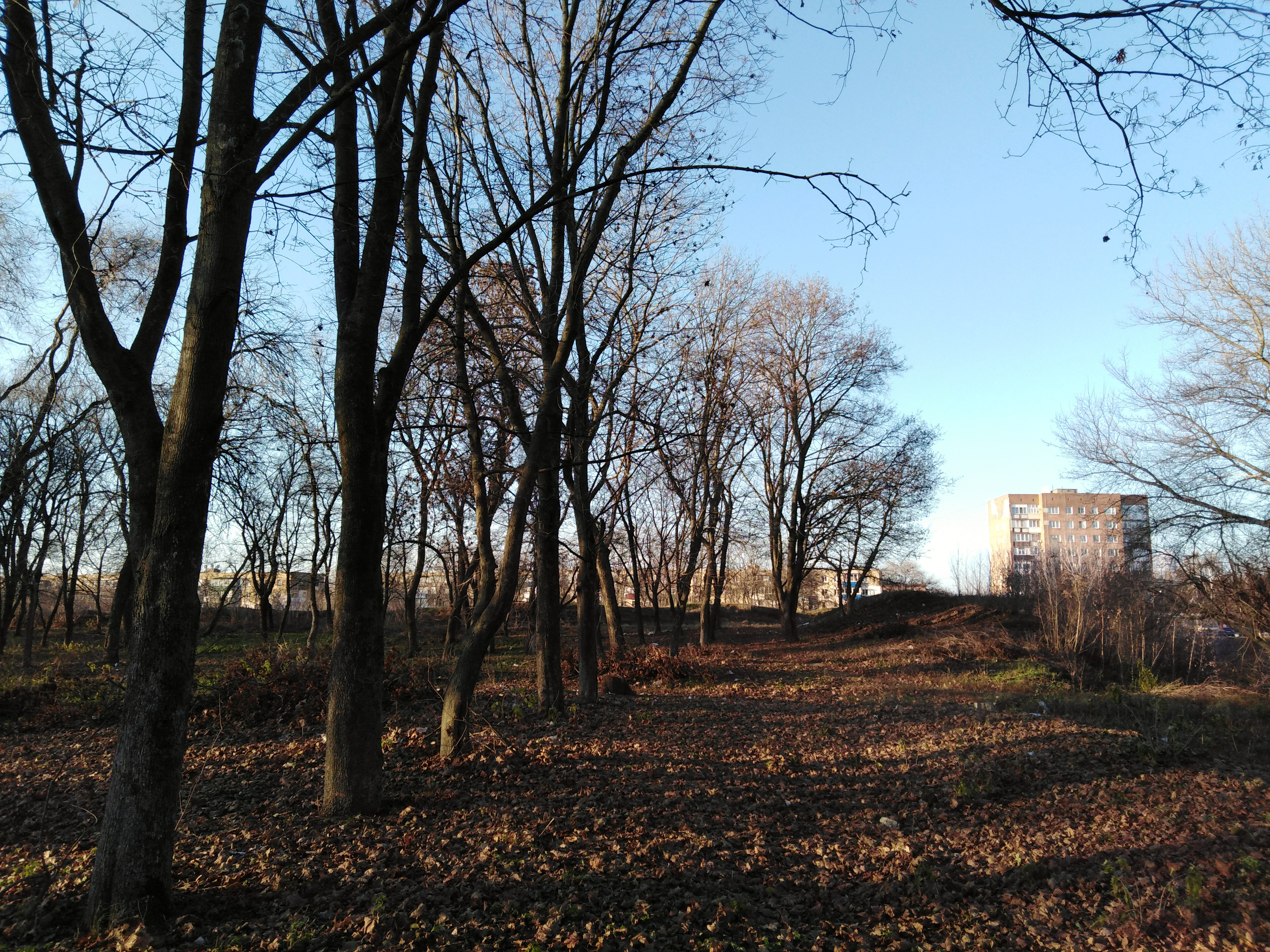 Ukraine, Kharkiv region, Krasnograd district, Krasnograd-city. Bilevska fortress. The fortress was built in 1731 as part of the Ukrainian defense line of the Russian Empire.